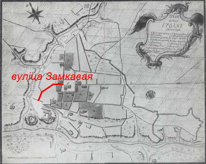 Zamkavaya street on the map of Grodno in 1759